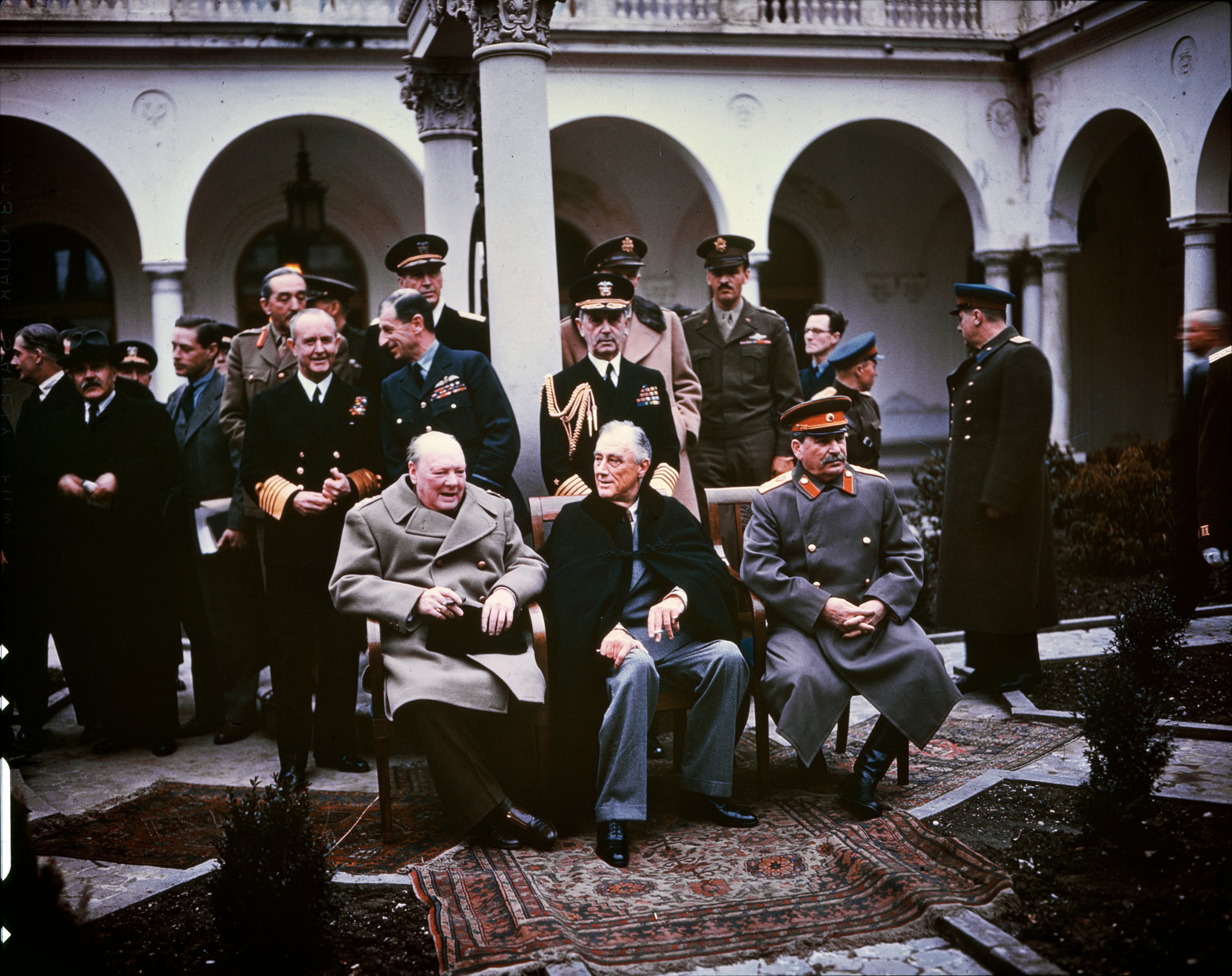 Yalta Conference 1945: Churchill, Roosevelt, Stalin. This Kodak Kodachrome photograph was not colorized.